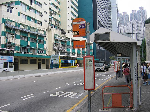 No.396, Chai Wan Road, Chai Wan, Hong Kong Island, Hong Kong